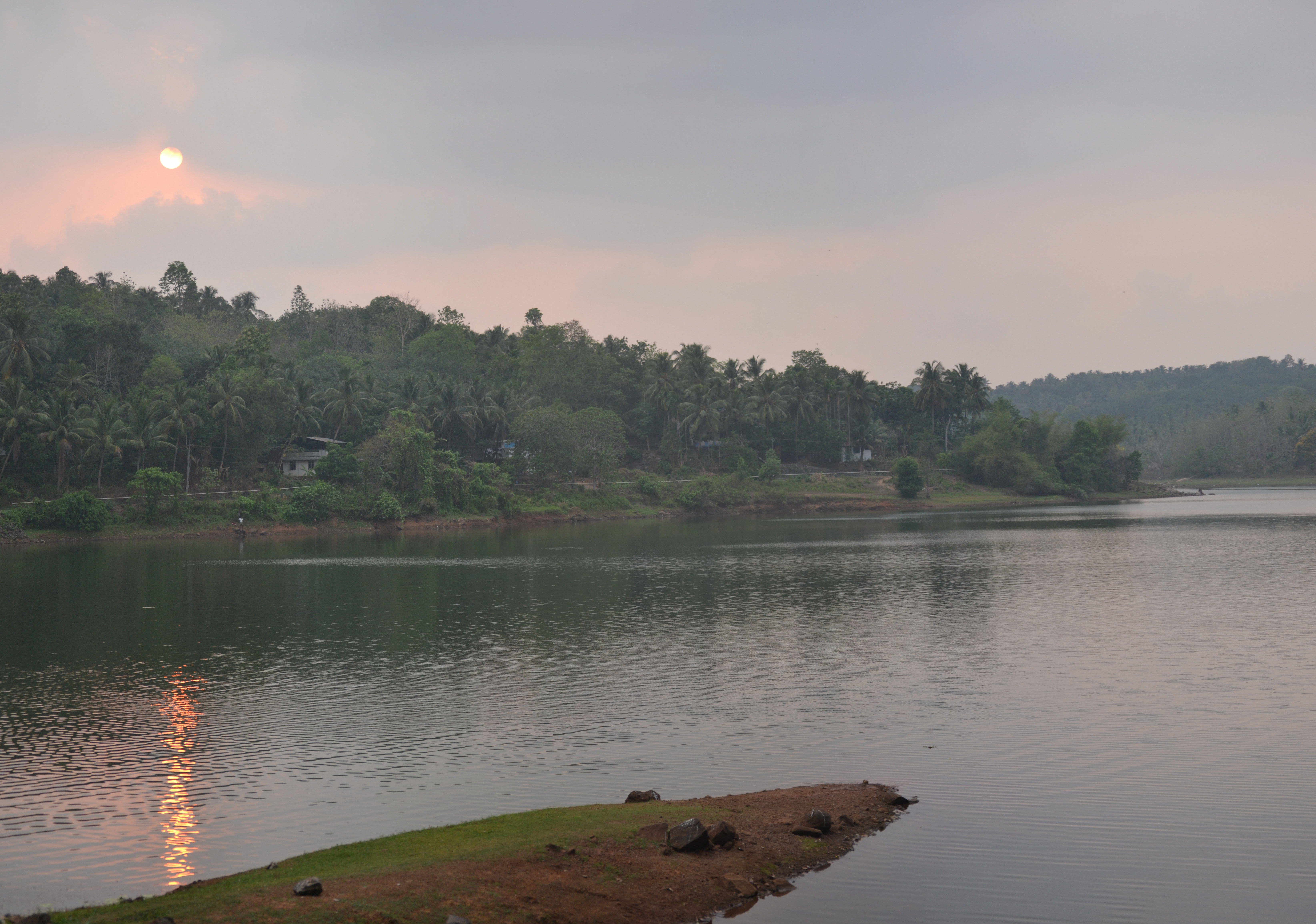 Stitched Panorama